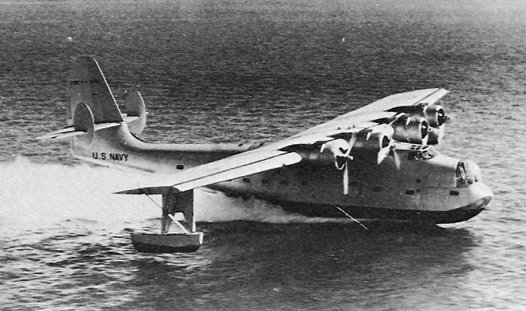 The Consolidated XPB2Y-1 Coronado (BuNo 0453) flying boat in 1938. Note the original single tail configuration.